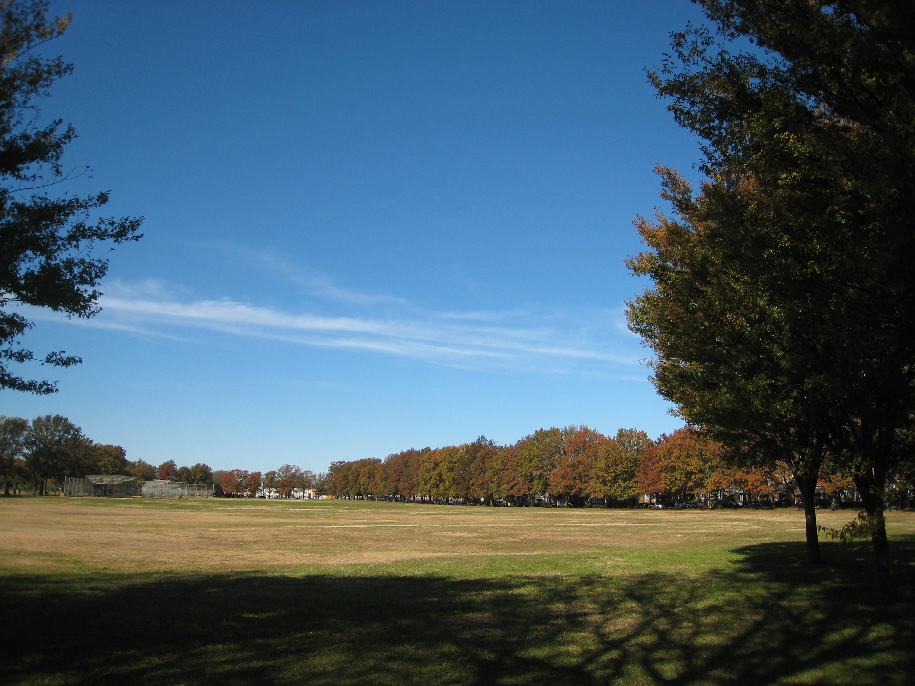 Marine Park